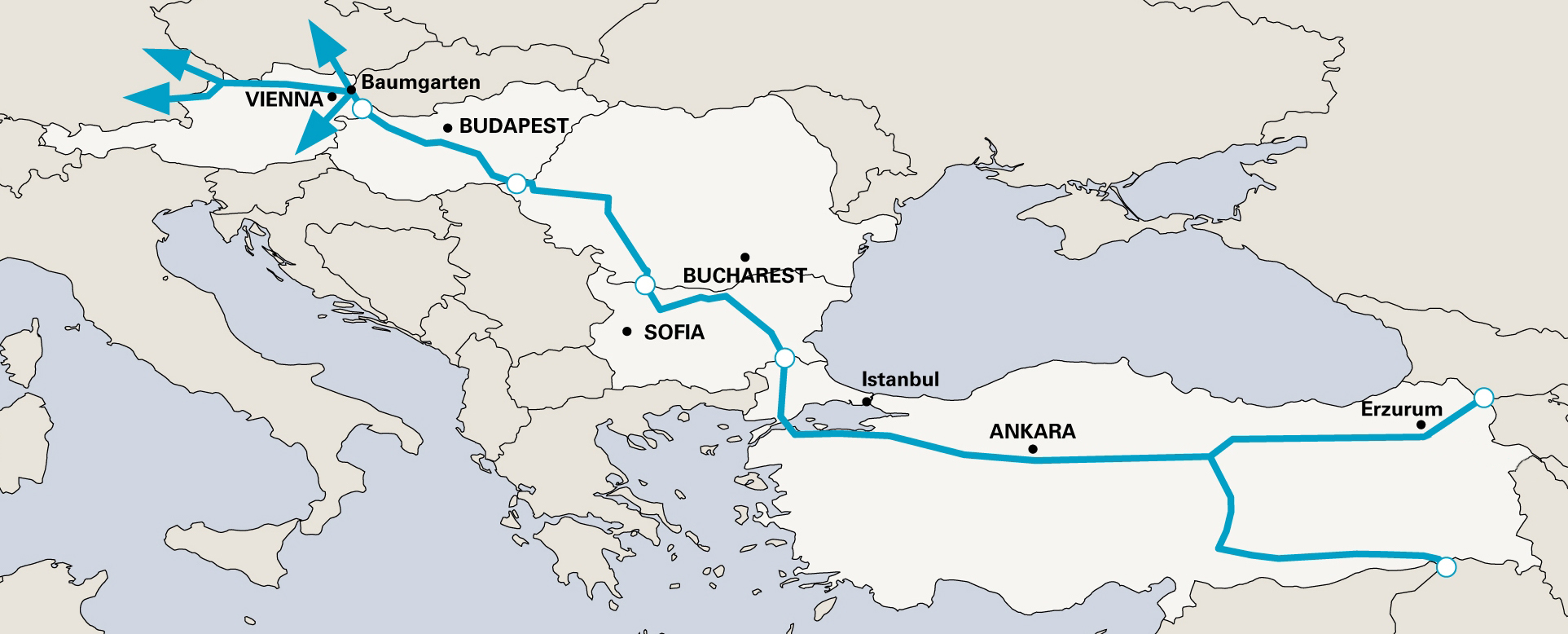 2010 map of the Nabucco pipeline (also referred as Turkey–Austria gas pipeline)